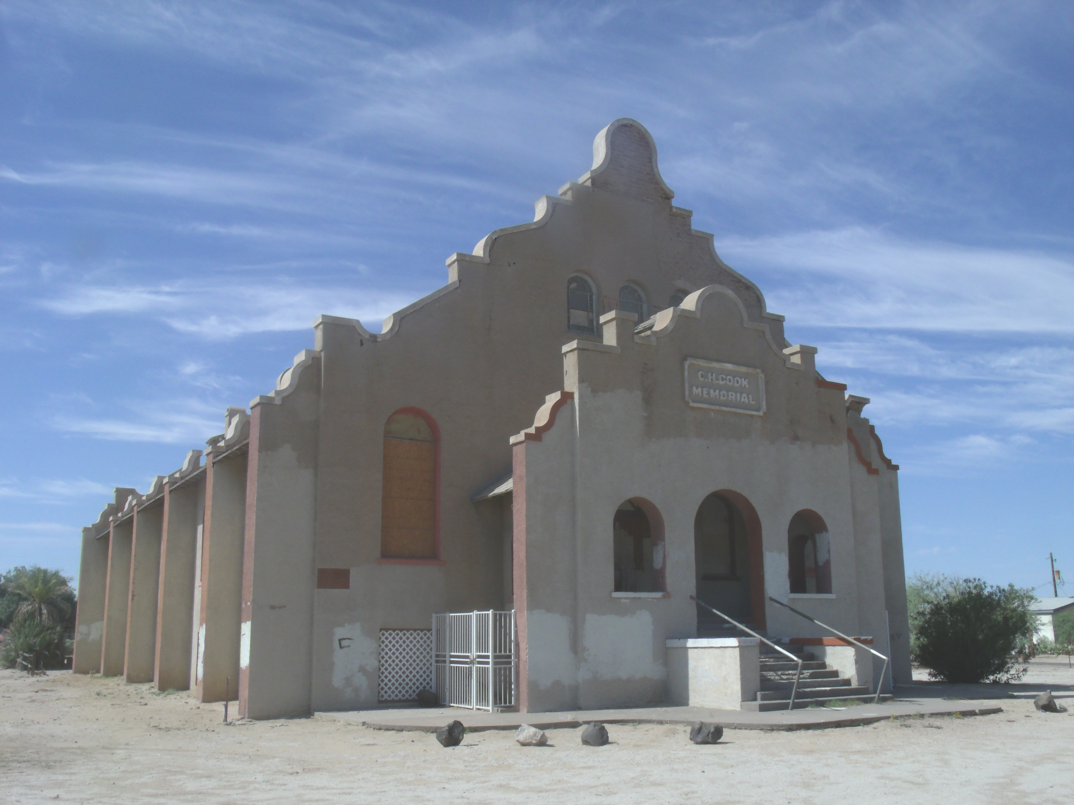 C. H. Cook Memorial Church is a historic church on Church Street in the town of Sacaton, located in the Gila River Indian Reservation in Arizona. It was built in 1918 and added to the National Register in 1975. The church is named after Charles Cook a young missionary who arrived in Sacaton on December 23, 1870 the funeral of Ira Hayes was held there. The church was listed in the National Register of Historic Places on August 28, 1975, reference # 75000359.